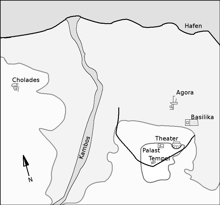 Map of Soloi